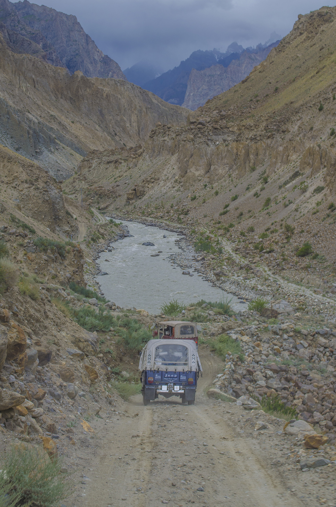 Approaching to Hushe Valley, Gilgit Baltistan aka Northern Areas of Pakistan.